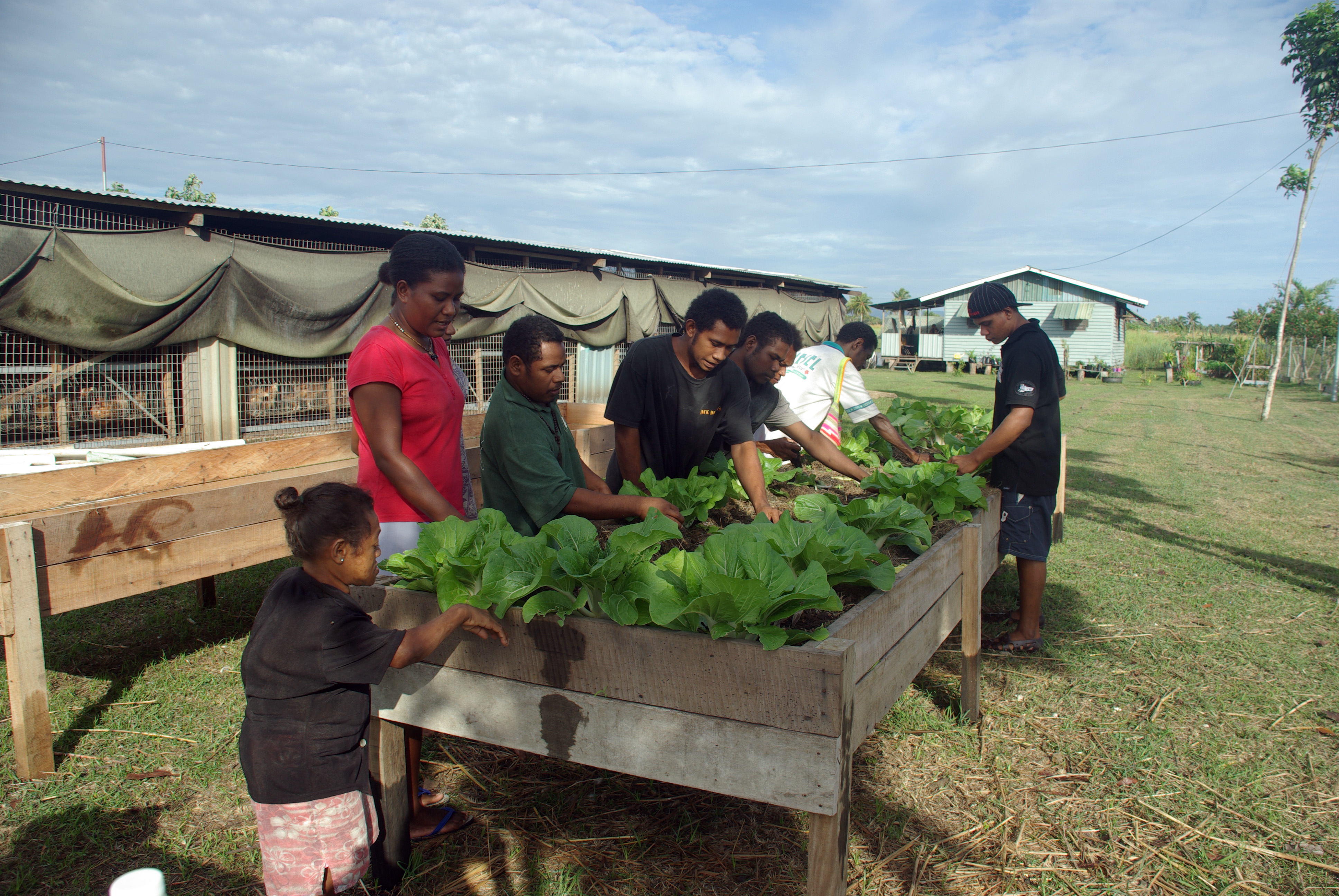 Students learn how to weed in the specially designed wheelchair accessible garden beds. (L-R) Miriam, Thelma Awasi – Agriculture teacher, Aaron, Kennedy, Andyson, Charles, Nelson and Peter. Photo taken by Irene Scott for AusAID. (13/2529)